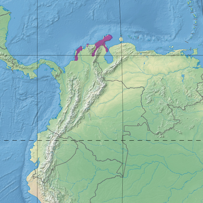 Ecoregion NT1308 - Guajira-Barranquilla xeric scrub (in purple)